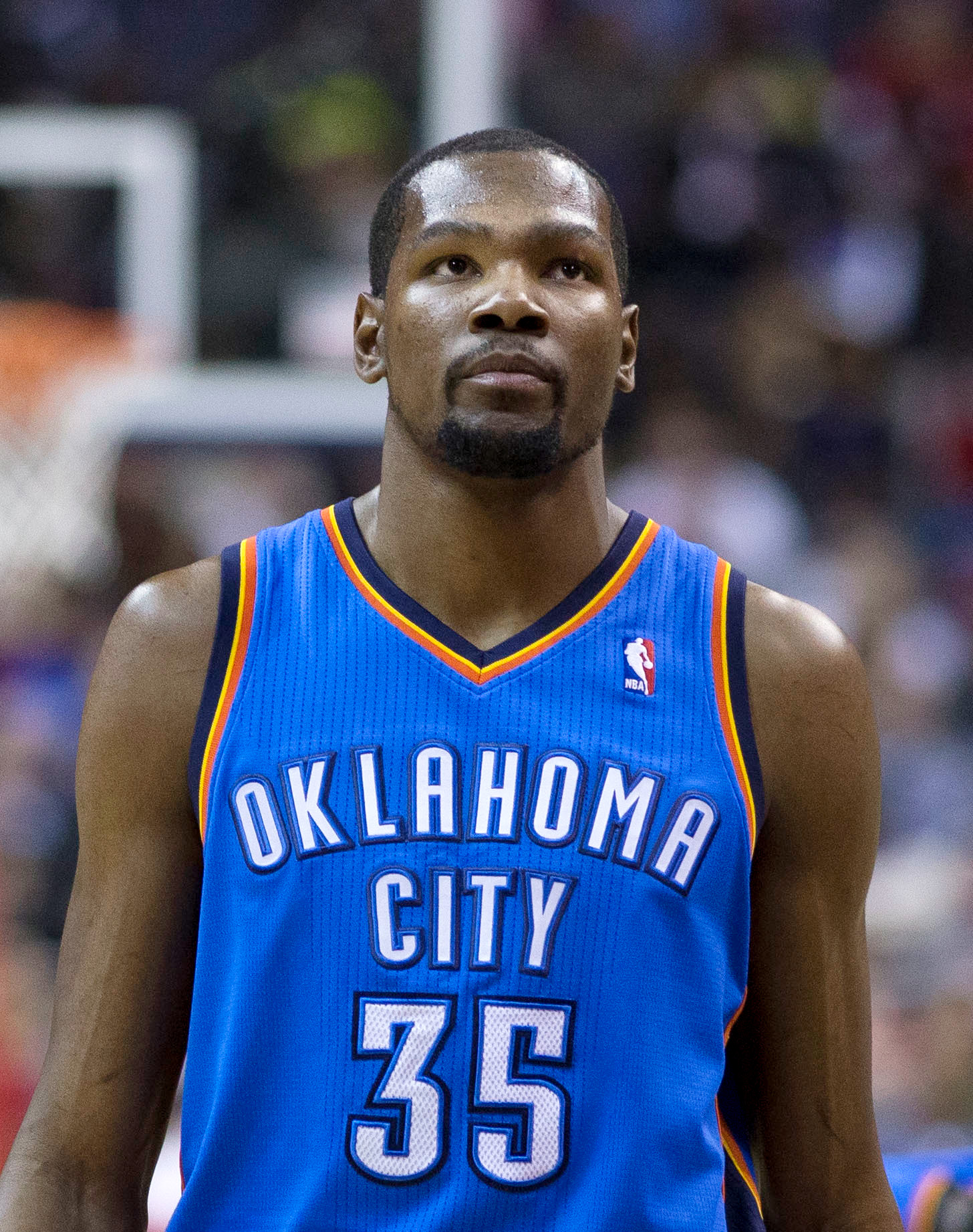 Thunder at Wizards 2/1/14